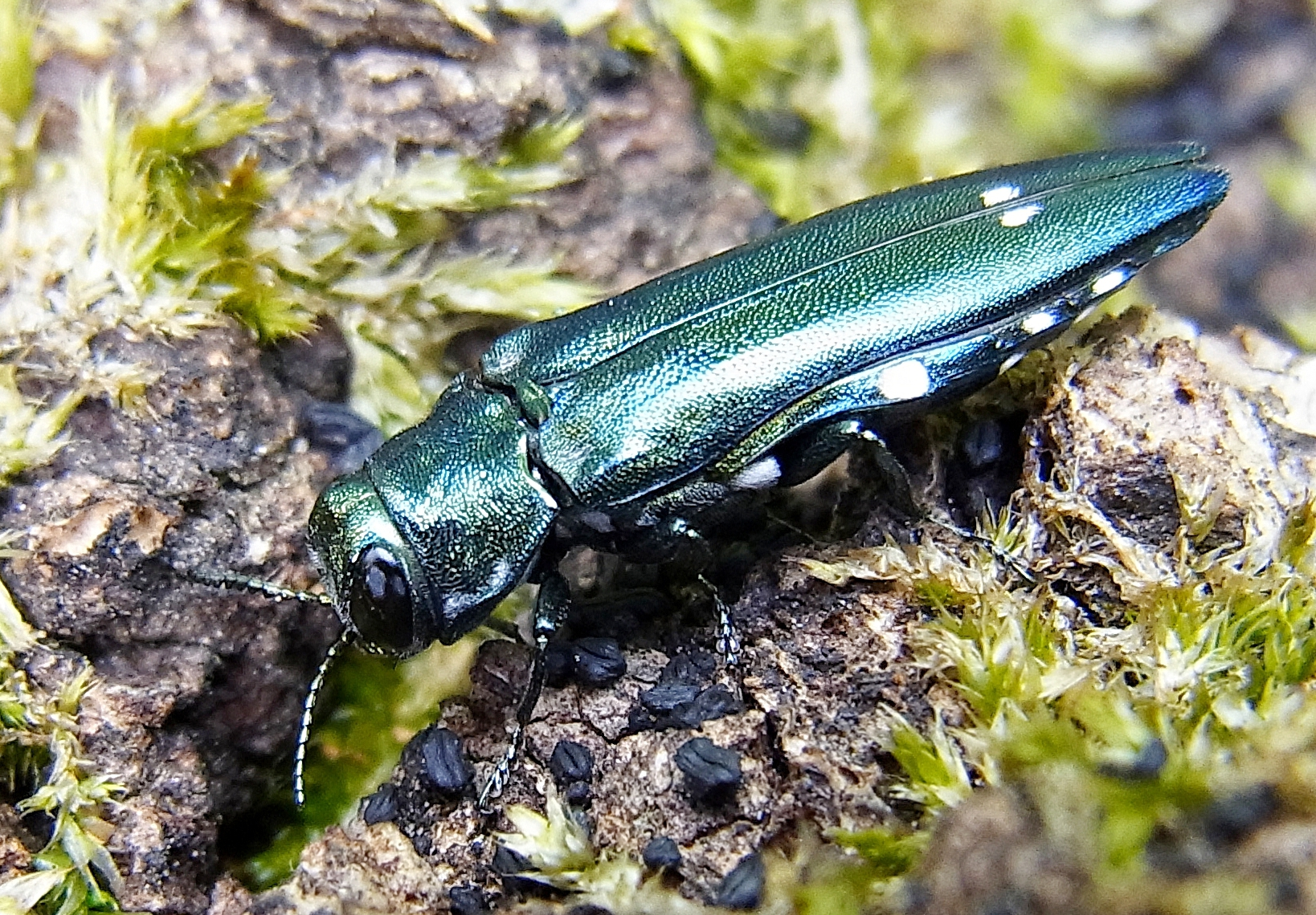 Agrilus biguttatus from France northeast of Carcassonne